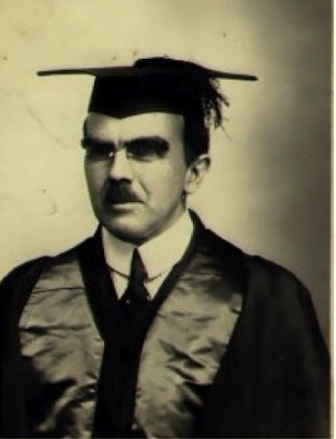 Harold Balme (1878-1953), medical missionary, during his tenure as president of Cheeloo University in 1922.